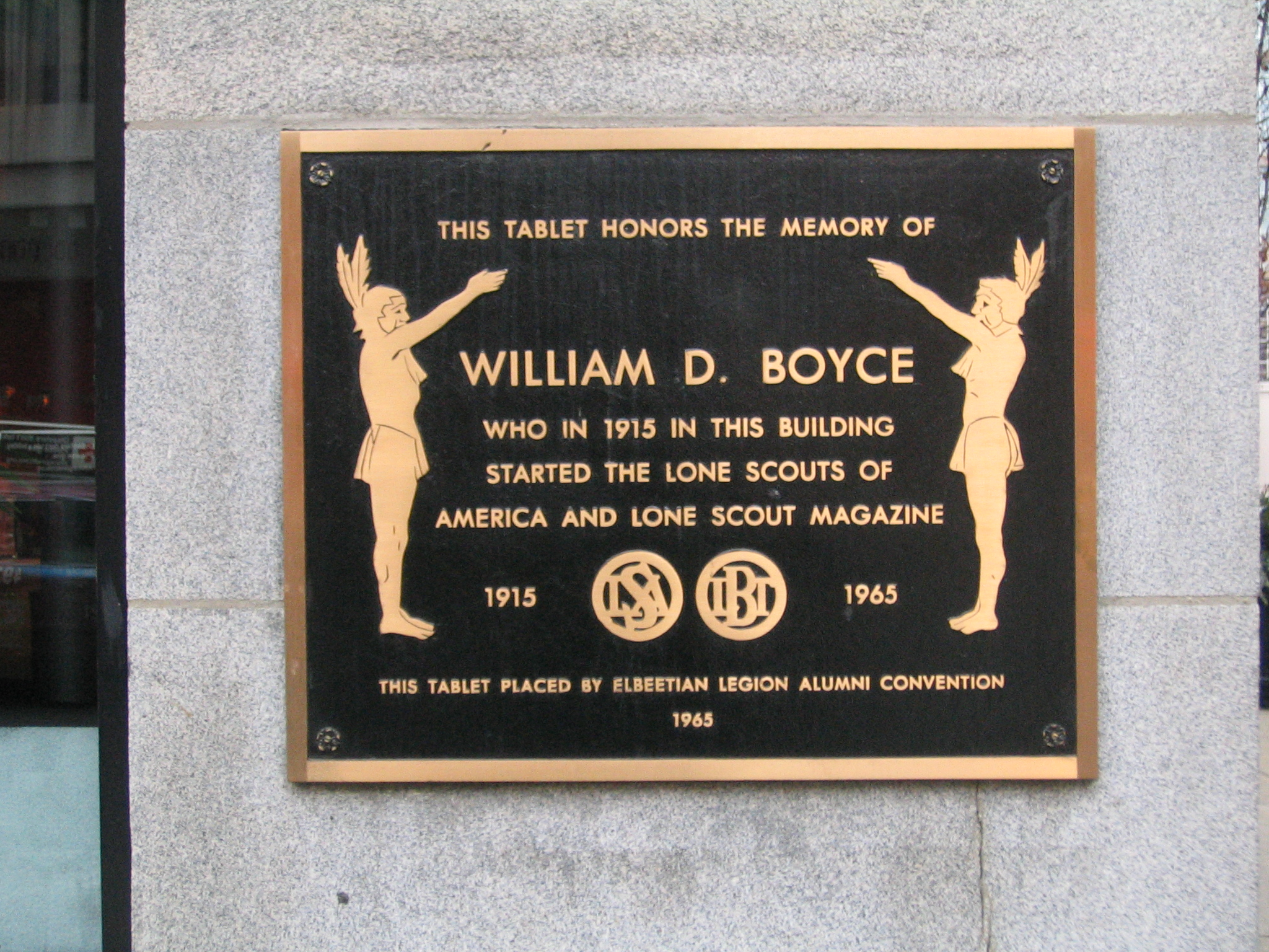 Plaque on Boyce Building, at 500 North Dearborn, Chicago, IL, USA, honoring his founding of the Lone Scouts of America